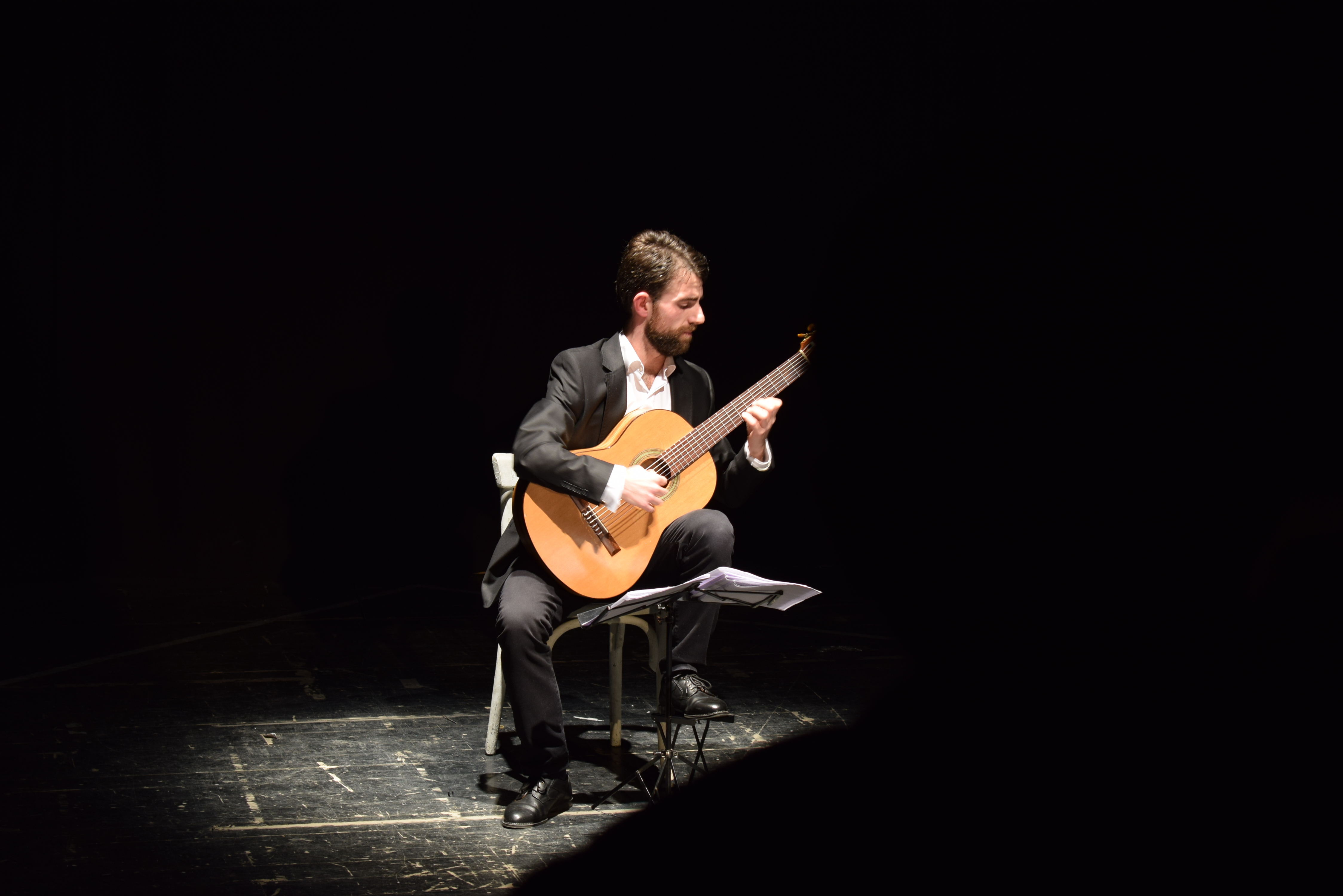 Dukagjin Ismaili - Classical guitar concert in Skopje, 2017